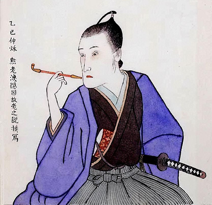 A Portrait of Kyūkei Hiraga (1728–80) by Momuō Kimura (from the cover of Gisaku-sha Kō Hoi). A collection of Keiō University Library.